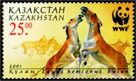 Stamp of Kazakhstan